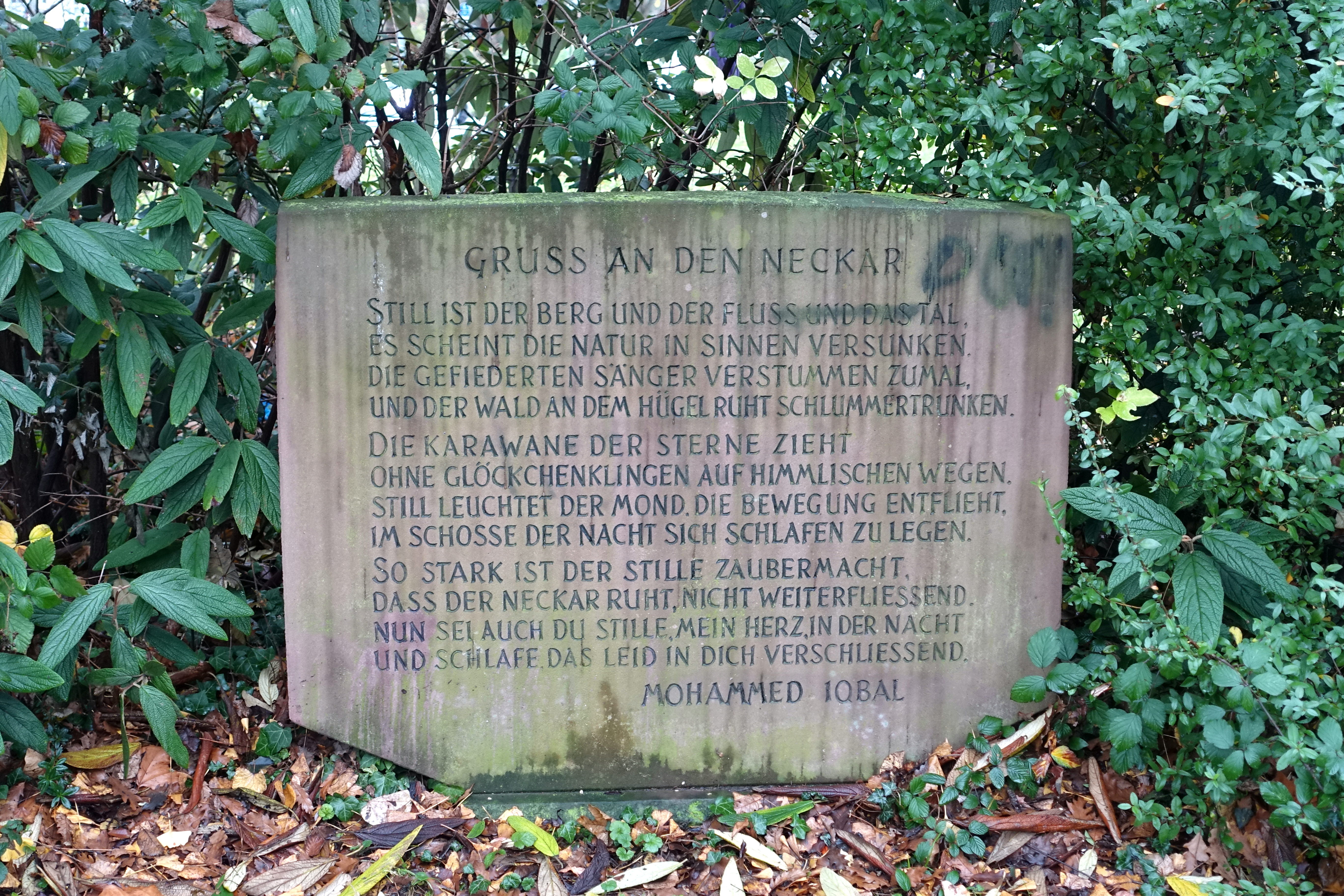 Gruss an den Neckar by Muhammad Iqbal - Heidelberg, Germany.